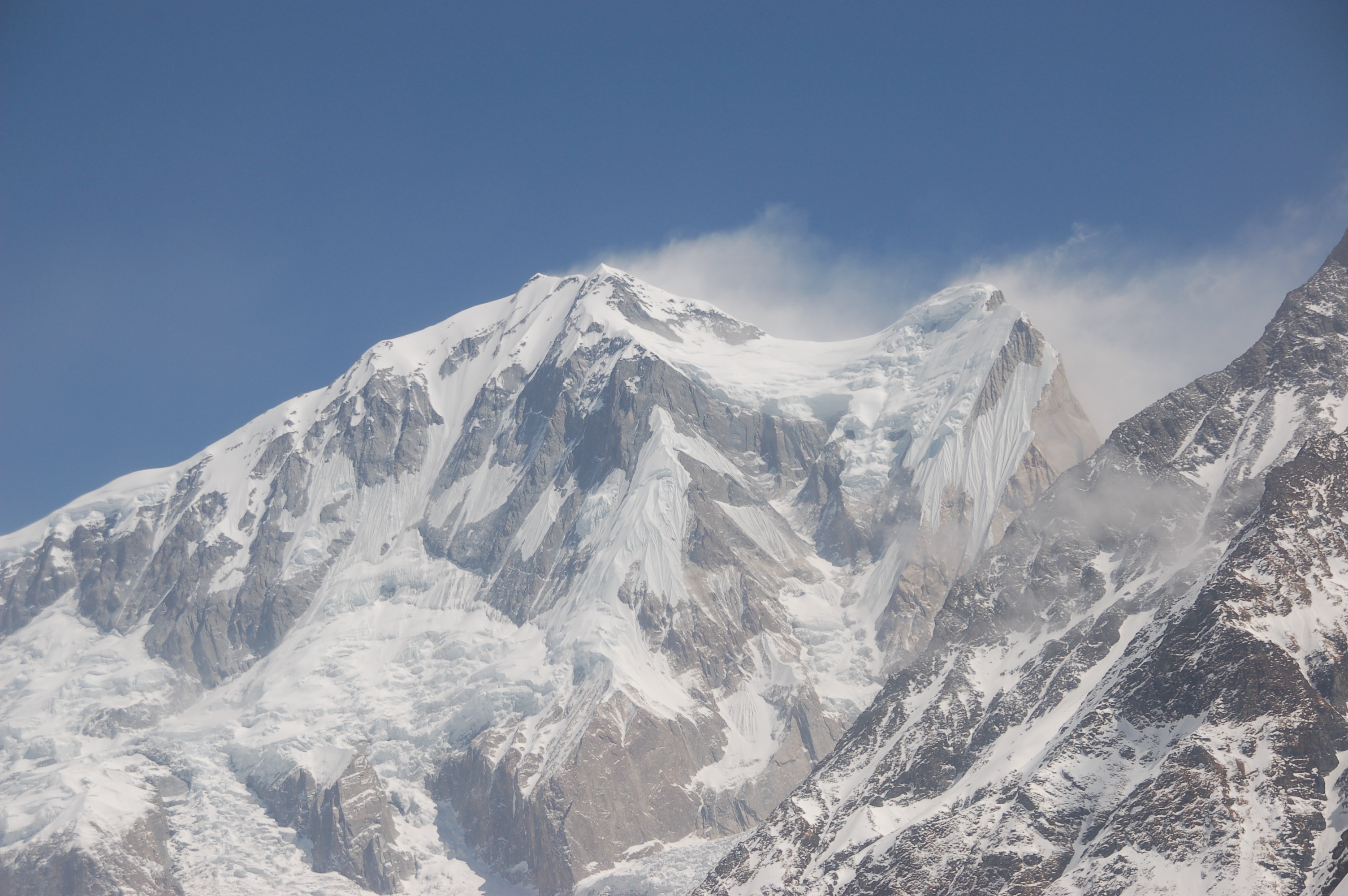 Annapurna South from Hiunchuli (5100m)